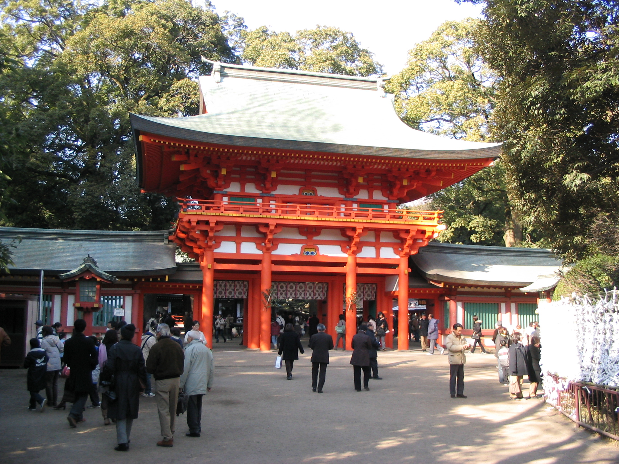 Hikawa Shrine, Omiya